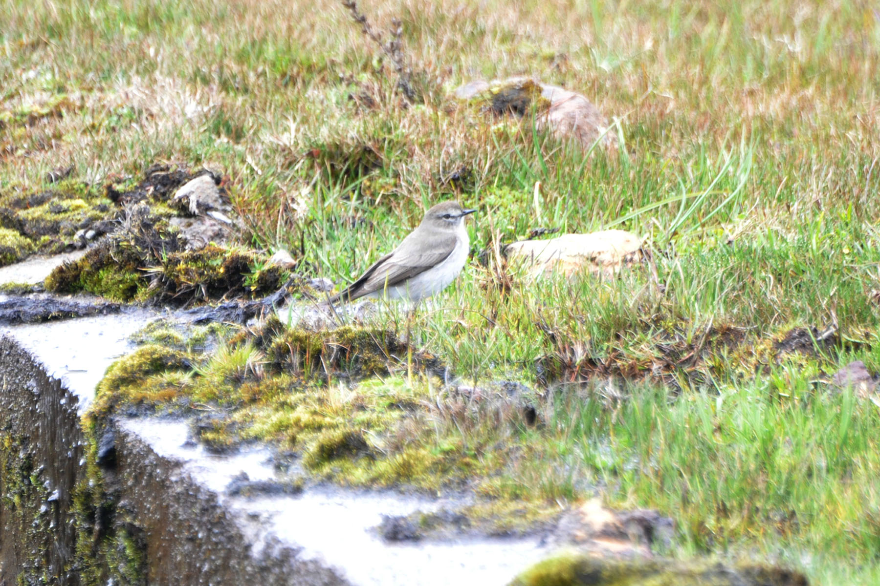 Muscisaxicola alpinus alpinus in Paramo Ground-tyrant, Ecuador